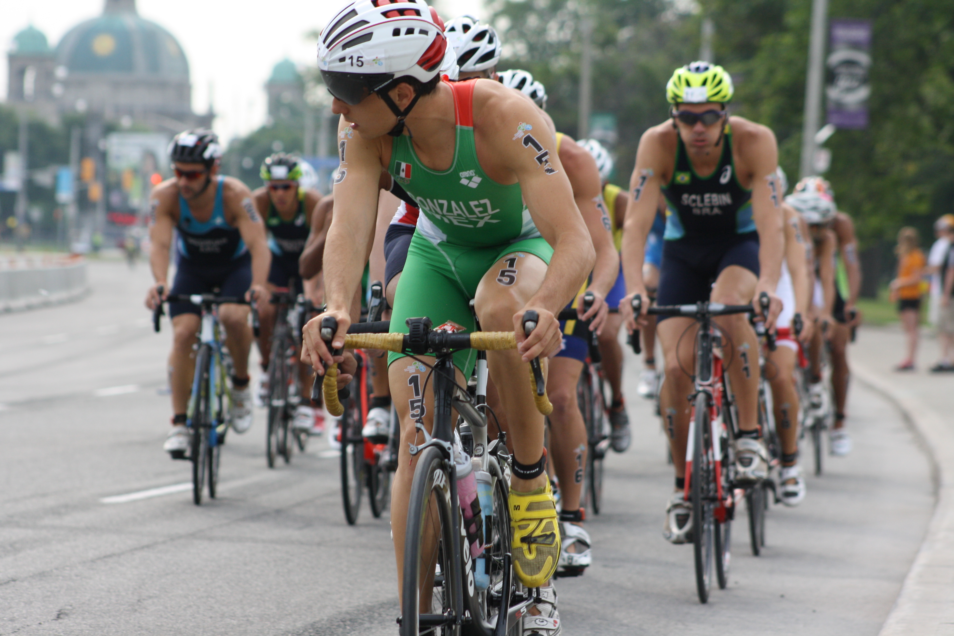 Cycling portion of the Pan Am Games triathlon at Toronto.